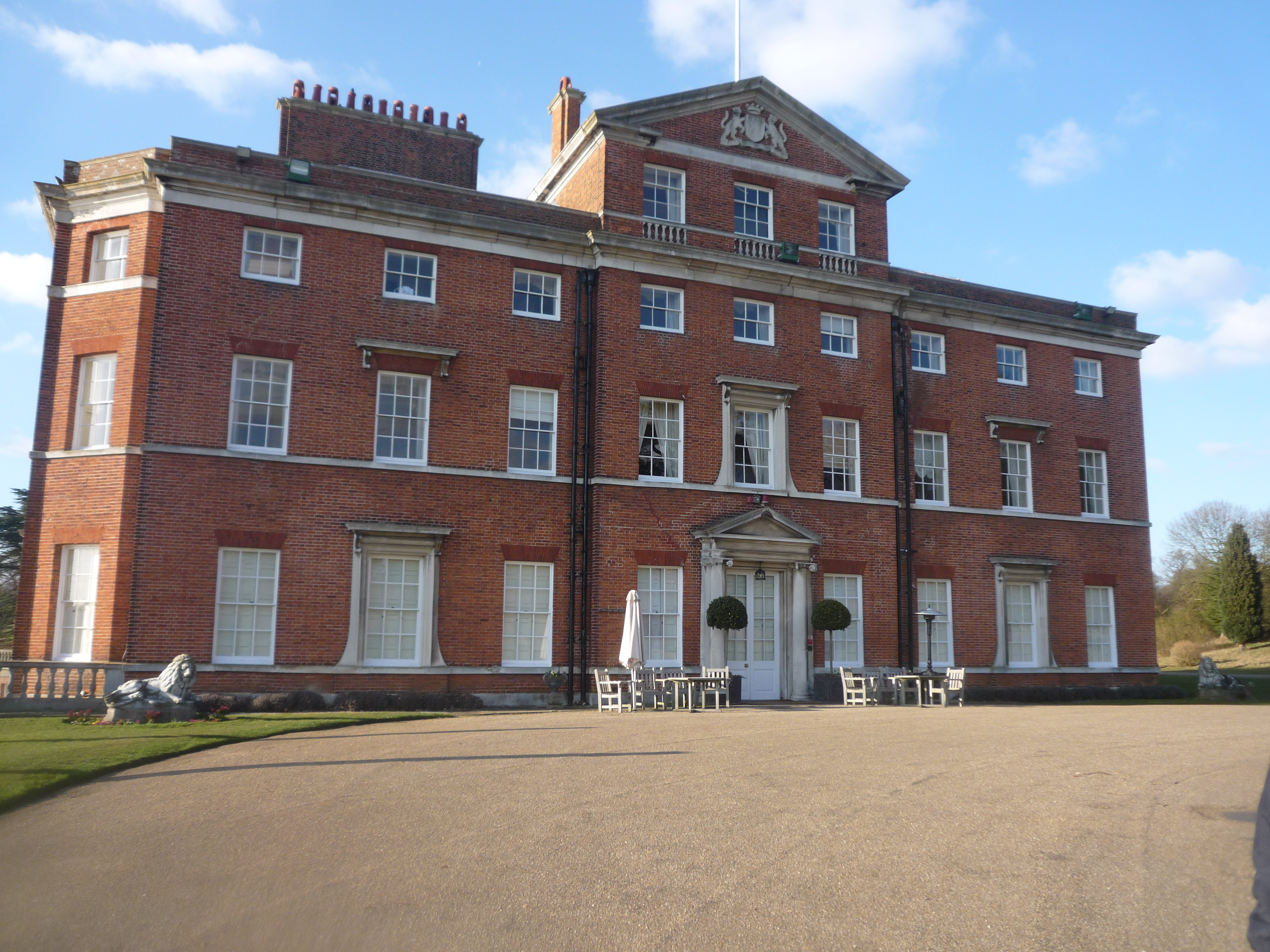 Photo of Brocket Hall, front view.